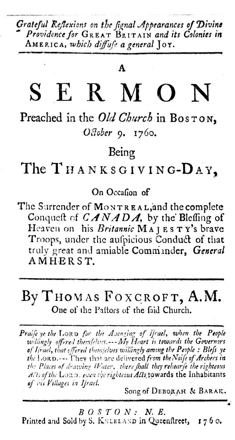 Grateful reflexions on the signal appearances of divine providence for Great Britain and its colonies in America, which diffuse a general joy. A sermon preached in the Old Church in Boston, October 9. 1760. Being the thanksgiving-day, on occasion of the surrender of Montreal, and the complete conquest of Canada, by the blessing of heaven on his Britannic Majesty's brave troops, under the auspicious conduct of that truly great and amiable commander, General Amherst. By Thomas Foxcroft, A.M. One of the Pastors of the said Church.